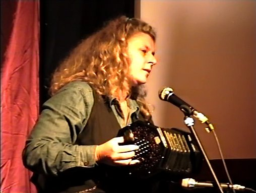 Kristina Olsen (U.S. singer-songwriter) on stage at the 1997 Cygnet Folk Festival (3) (Tony Rees photograph)